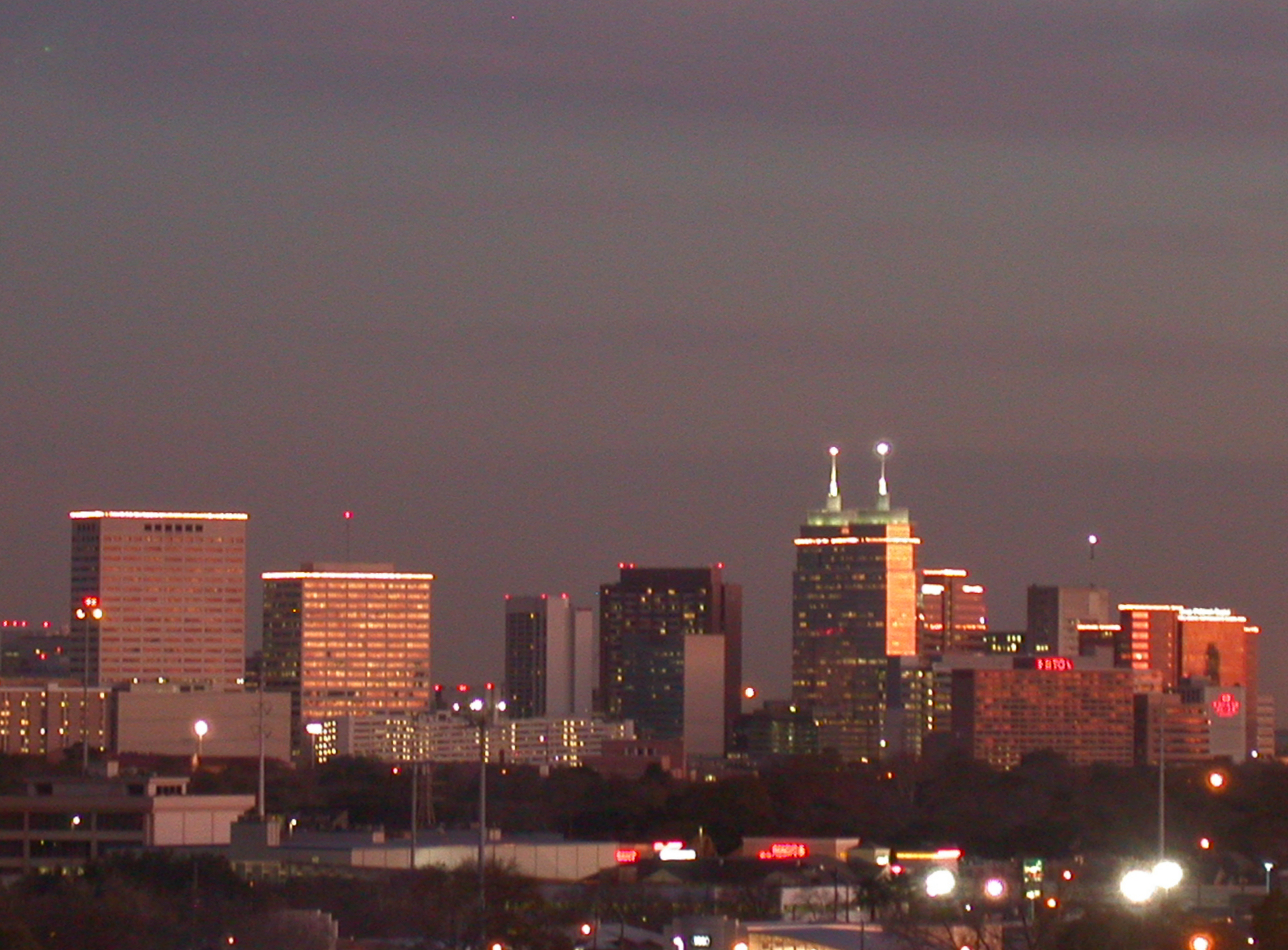 Syline of the Texas Medical Center in Houston, Texas